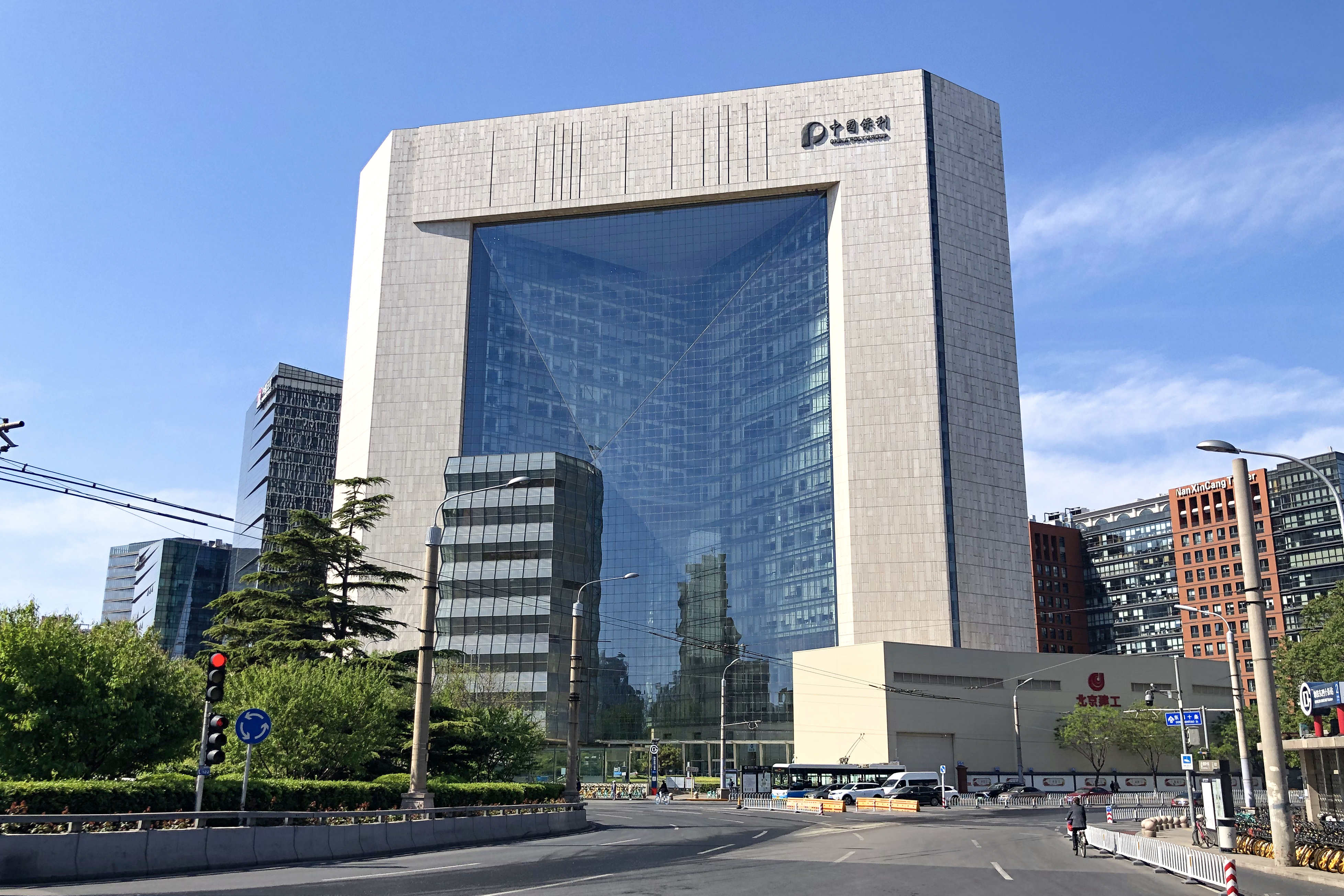 Corner D of Dongsi Shitiao. Poly stands for "Defending Victory".